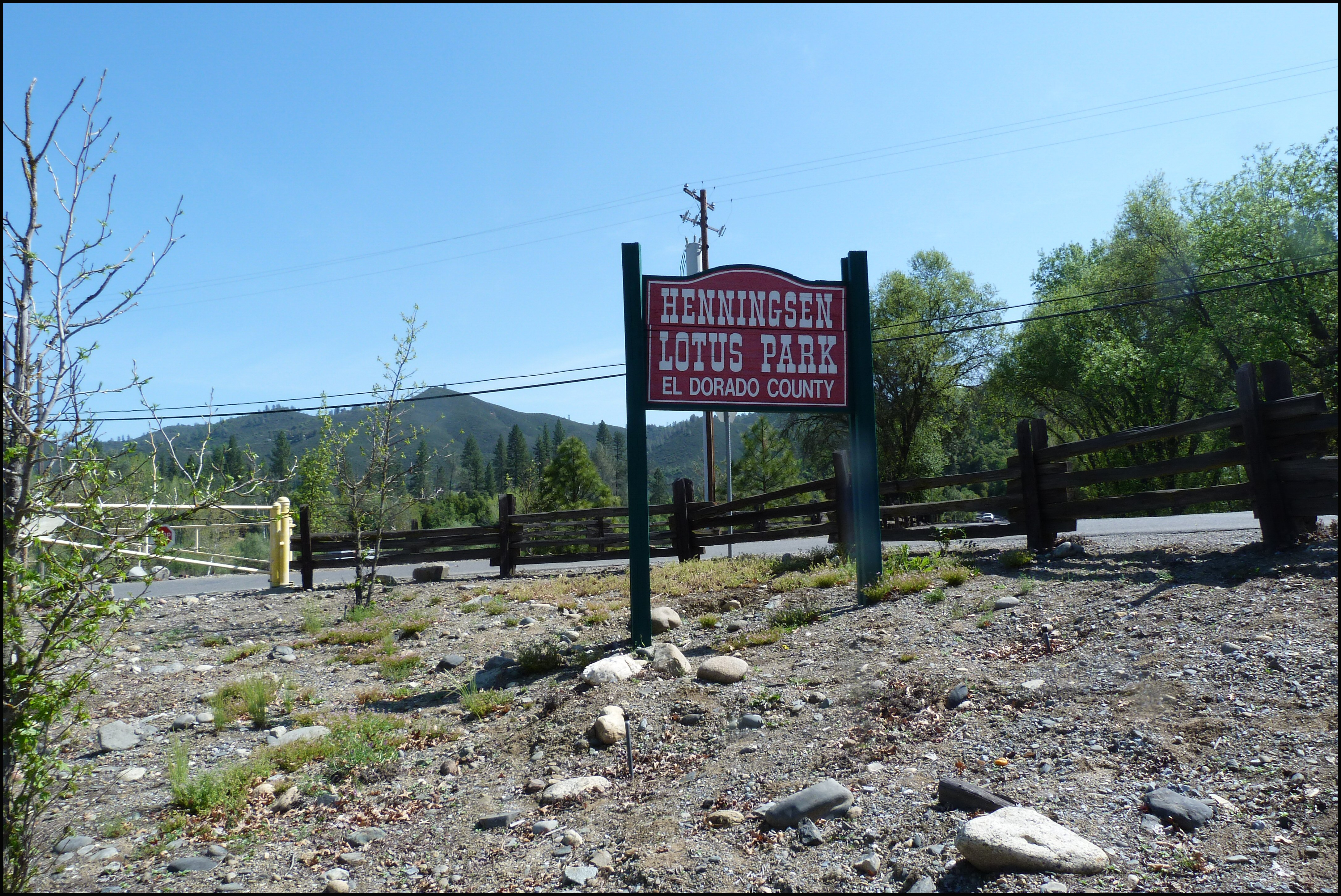 Meteorite search, Lotus, California